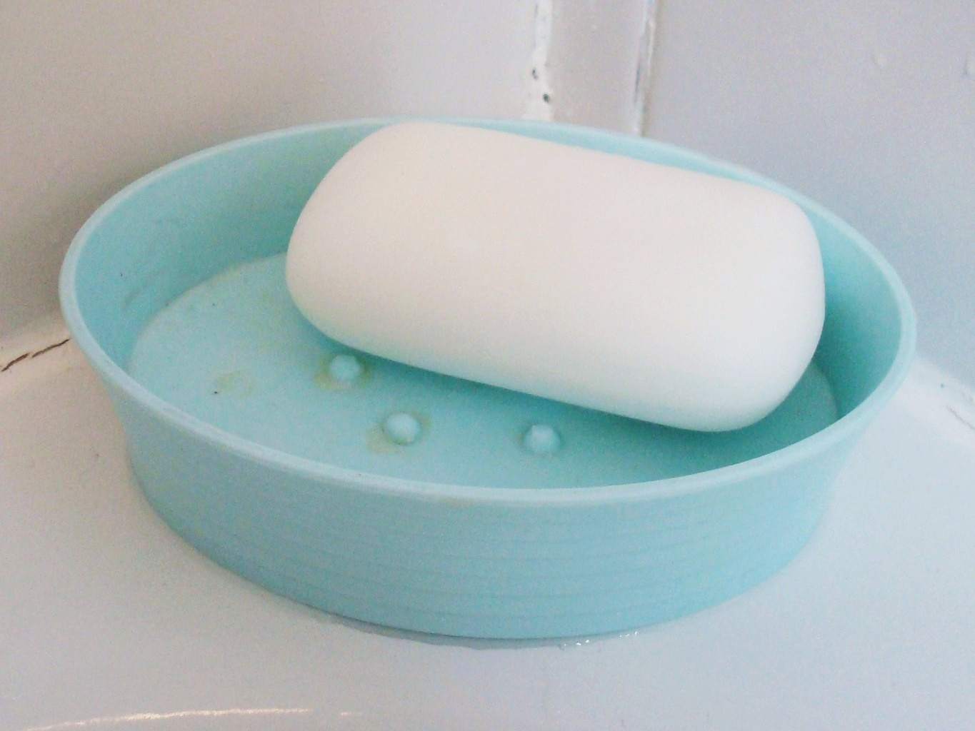 A white bar of soap in a light blue plastic soap dish.